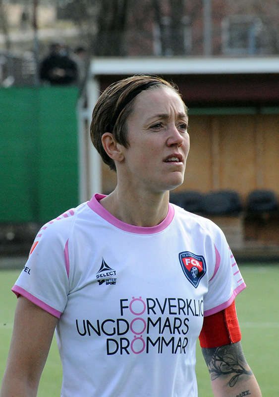 Therese Sjögran (2014)